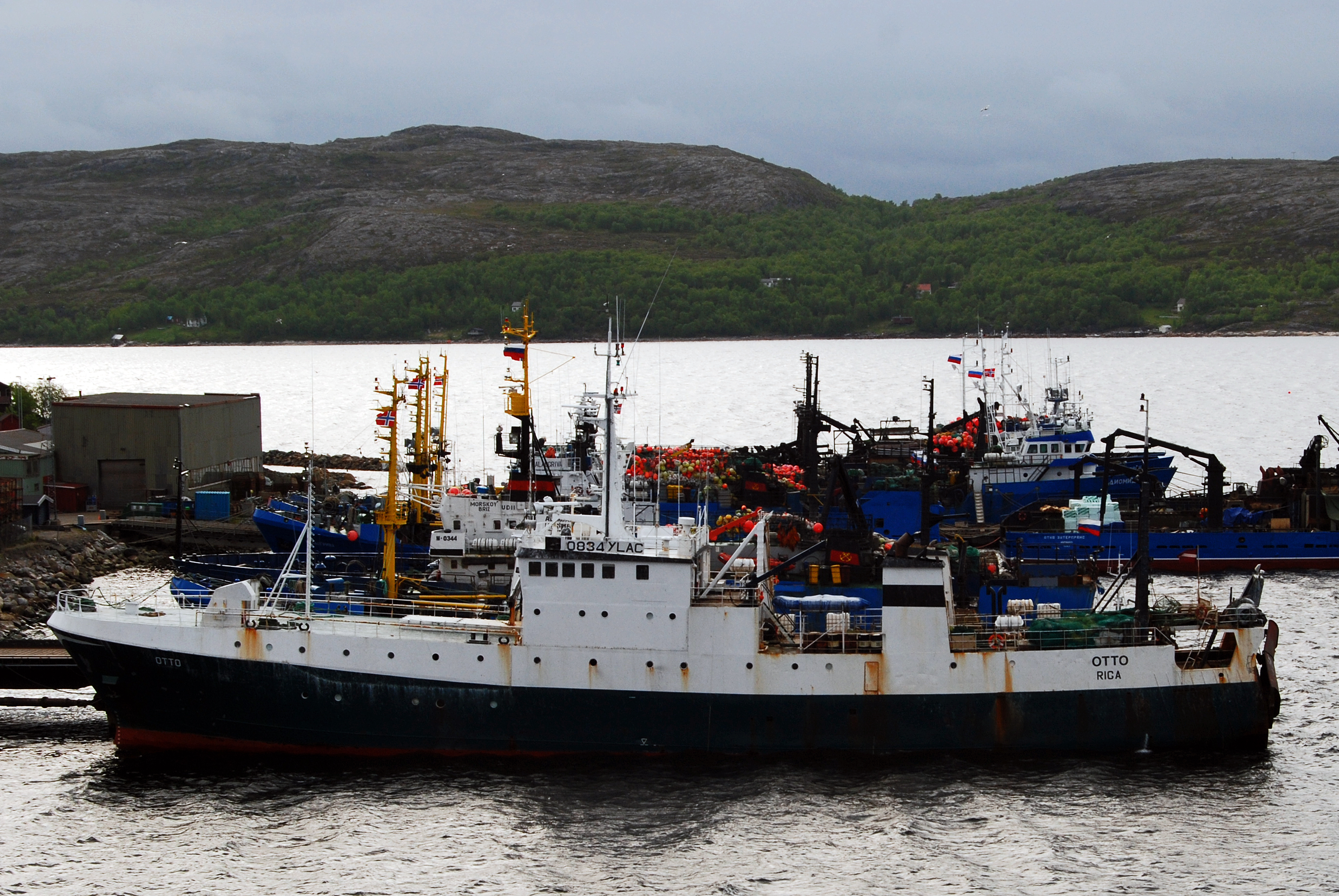 Back in Kirkenes passing time until the 6:00 p.m. sailing / the fishing trawler OTTO, built in 1968, sailing out of Riga and under the flag of Latvia